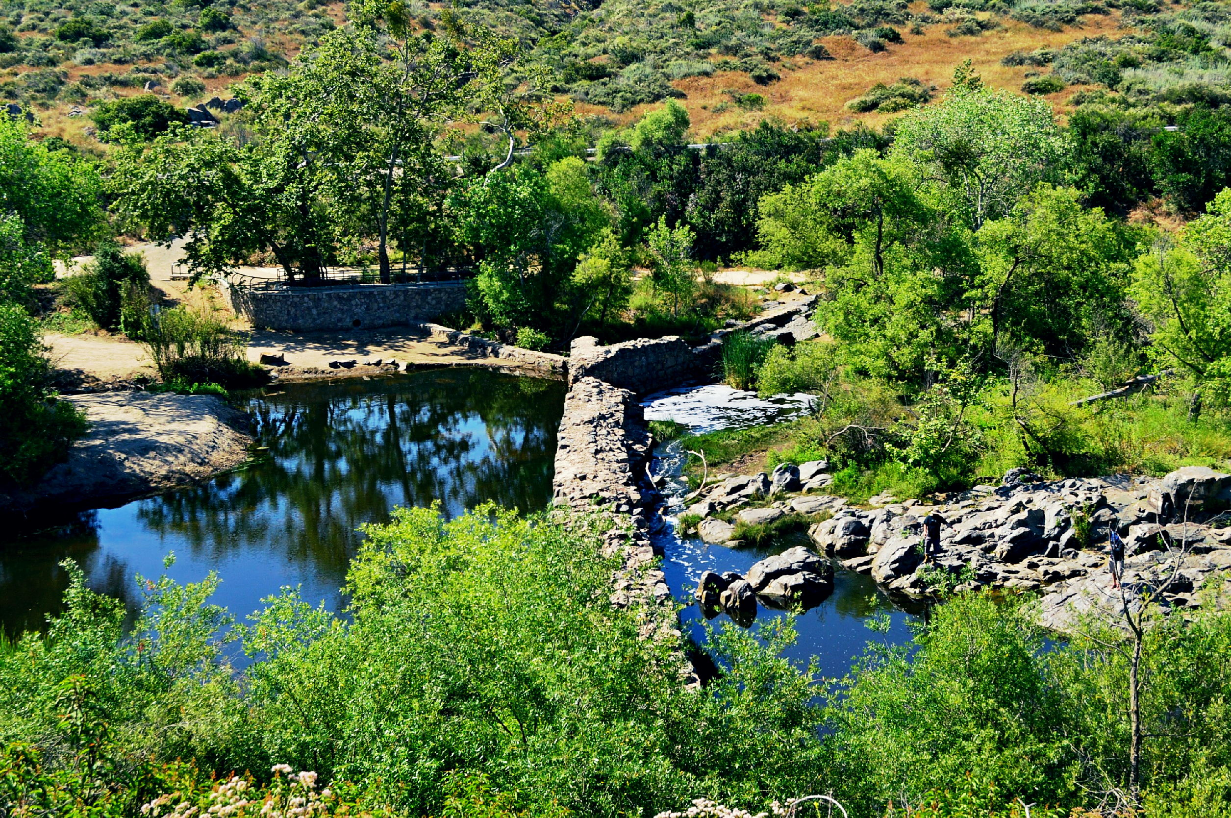 This is a reconstruction of the dam built by Native Americans during the missionary period. Located in Mission Trails Regional Park.